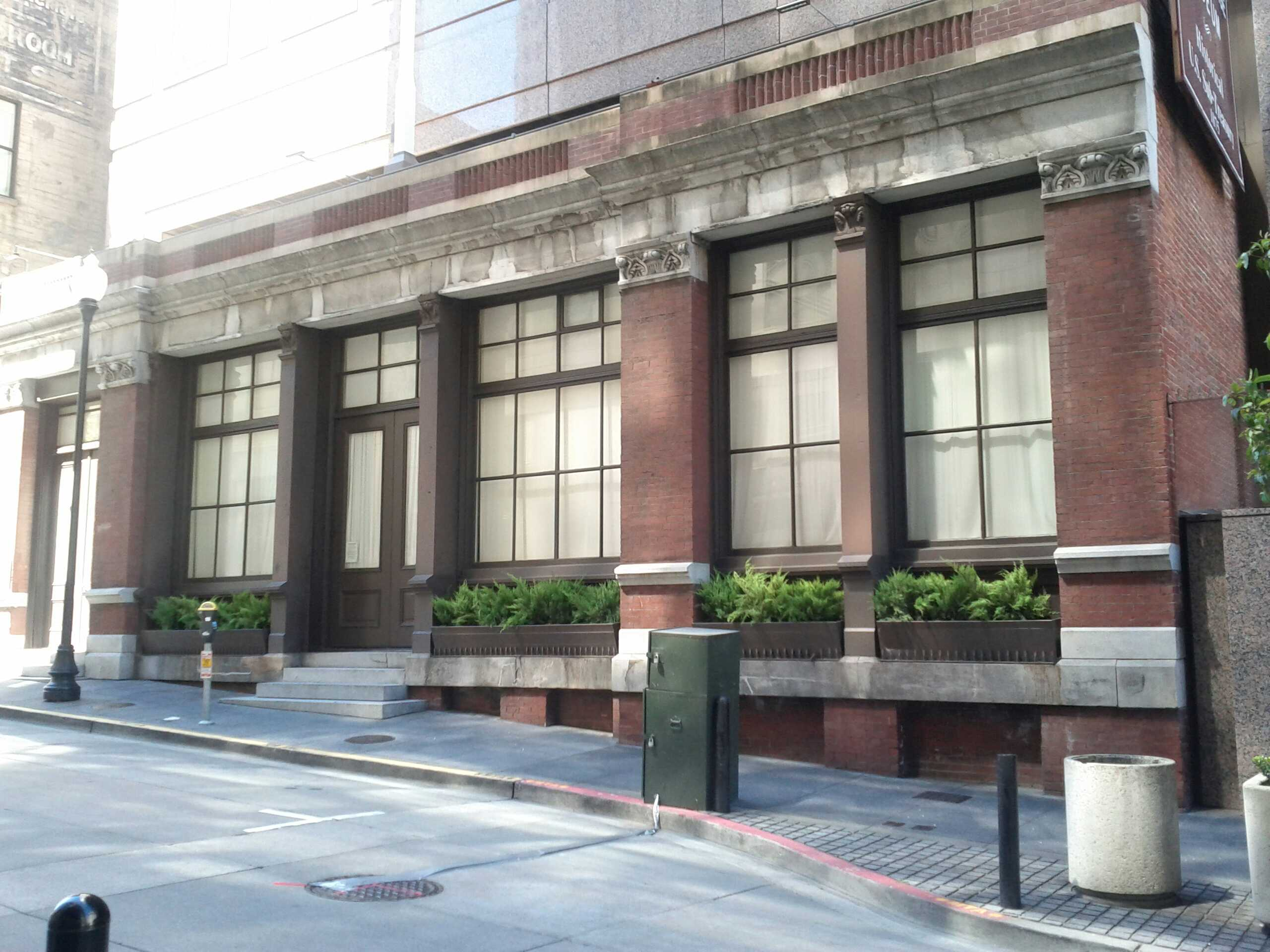 San Francisco Sub-Treasury building of 1877, reduced to one story after 1906 earthquake and fire